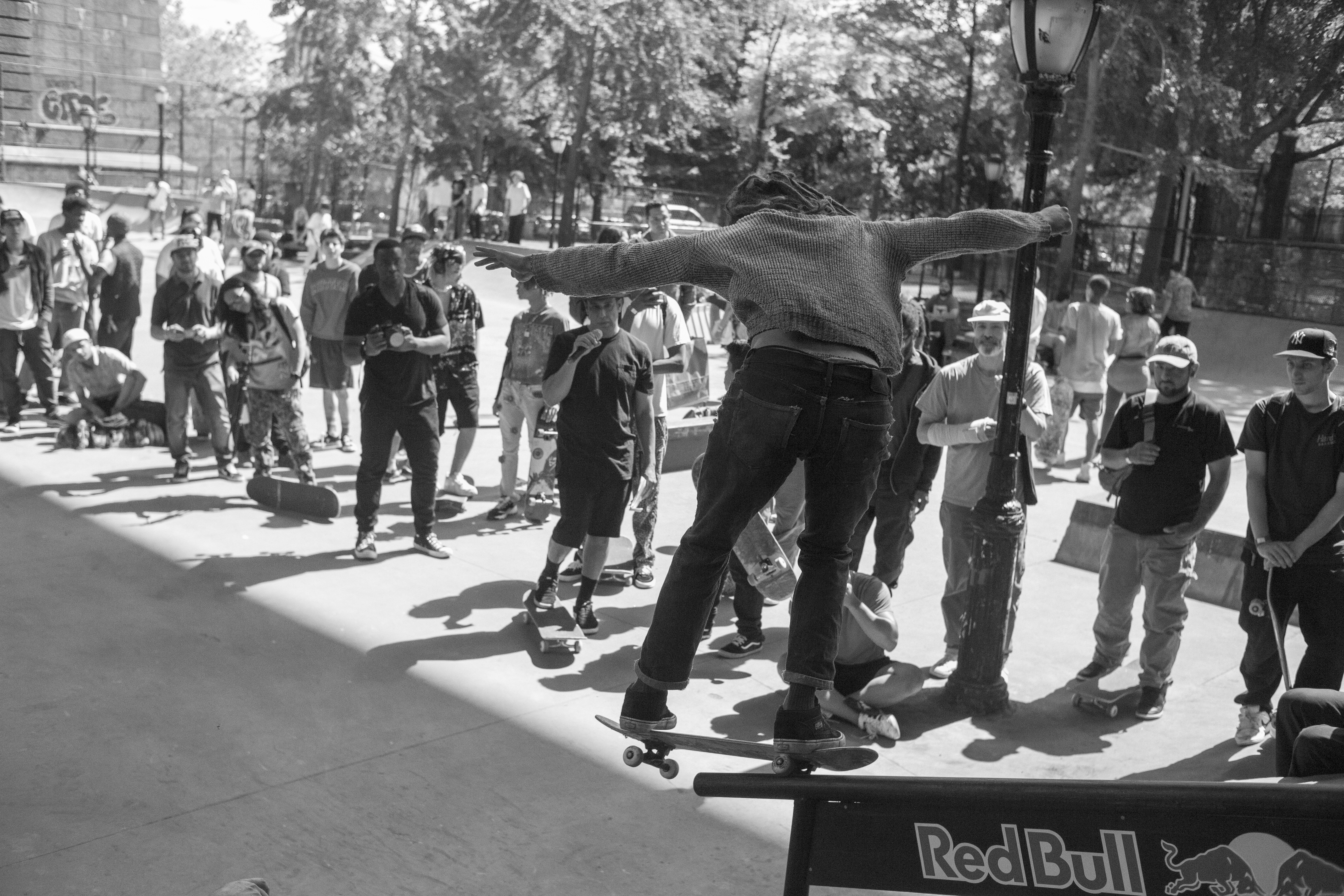 Skateboarder Yaje Popson lands a smooth and steezy backside 50-50 at LES skatepark during the best trick contest. Steve Rodriguez and other spectators looks on.